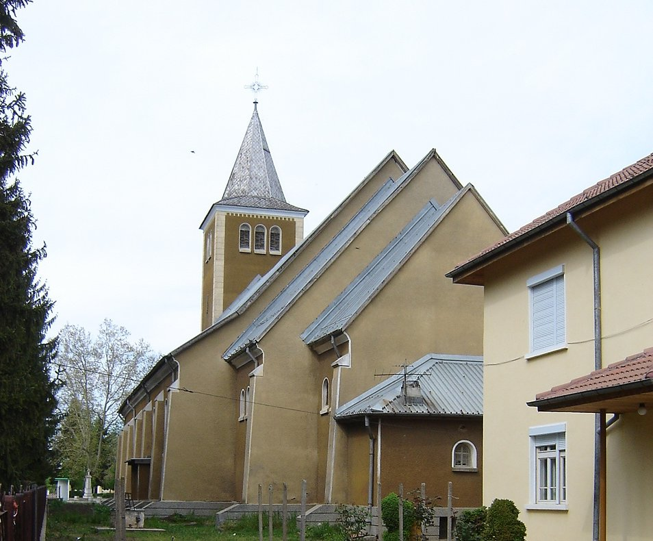 Roman Catholic church, Bardarski geran, Vratsa Province, Bulgaria